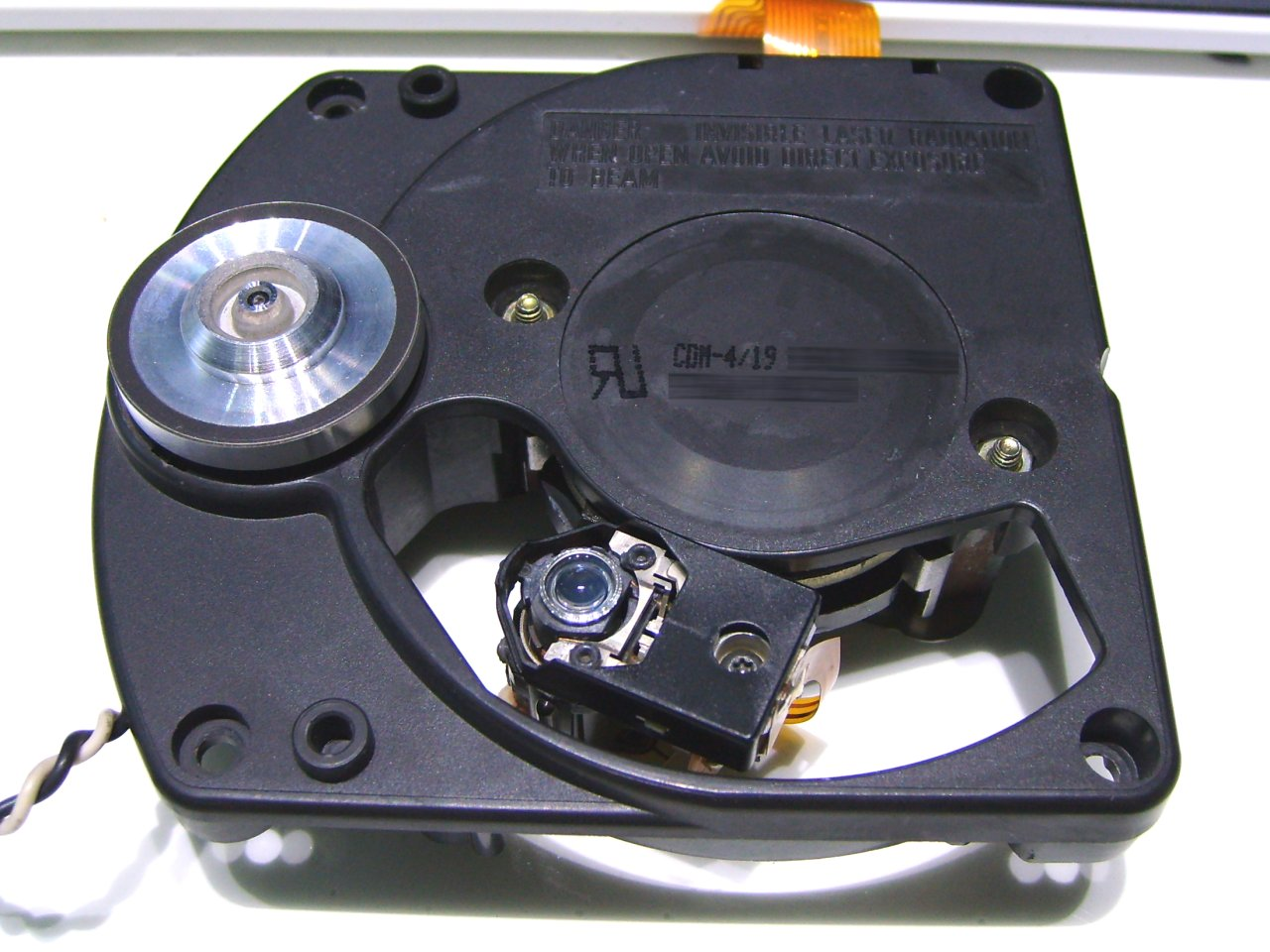 Philips CDM4 swing arm laser mechanism. This is the optical readout part of early CD players. The CDM4 is notable for it's high reliability and magnetic swing arm movement.